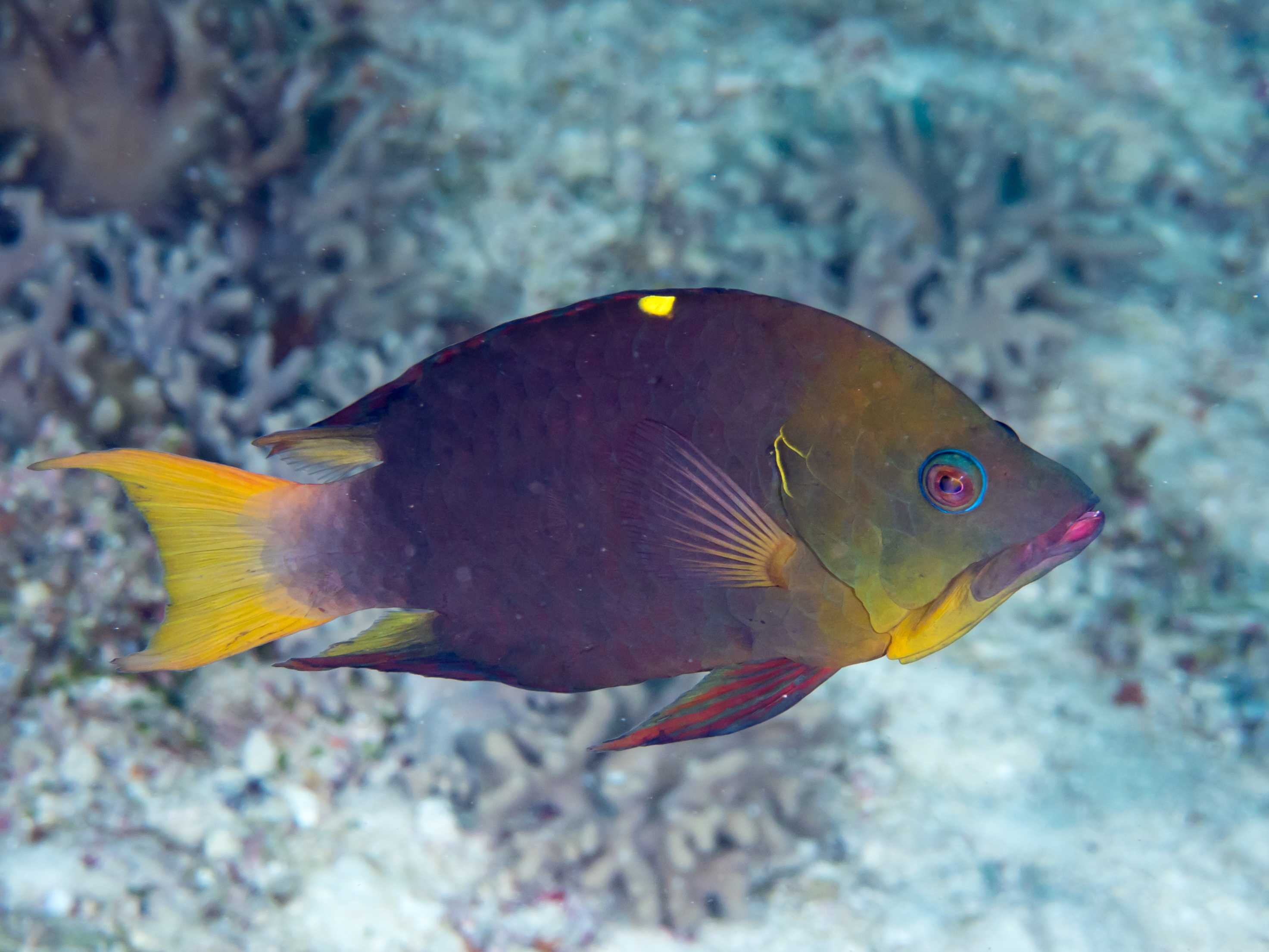 Latent slingjaw wrasse (Epibulus brevis). Raja Ampat